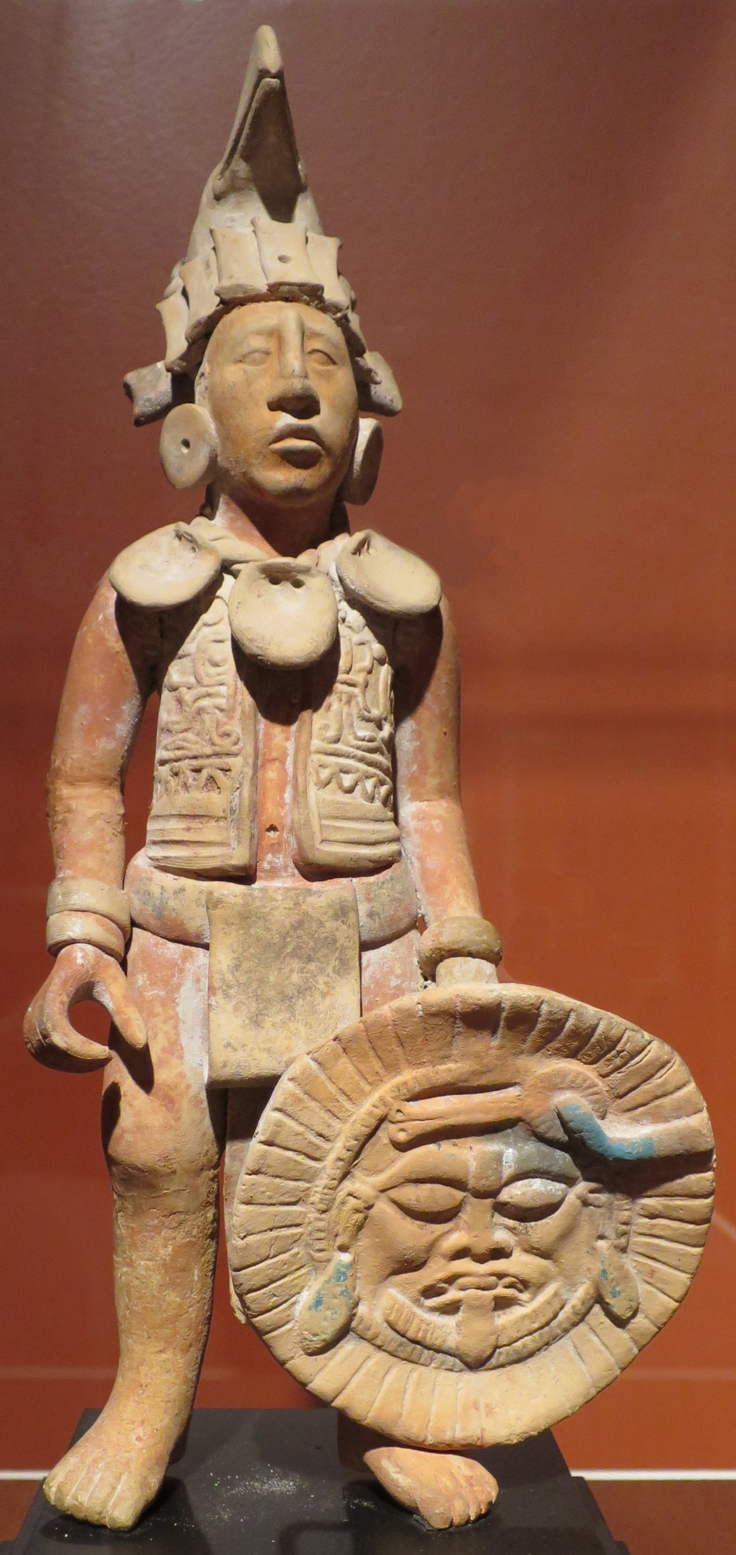 Maya standing male warrior, Island of Jaina, Campeche, Mexico, Late Classic Period, c. 550-950 C.E., ceramic and paint, long-term loan to the Dayton Art Institute